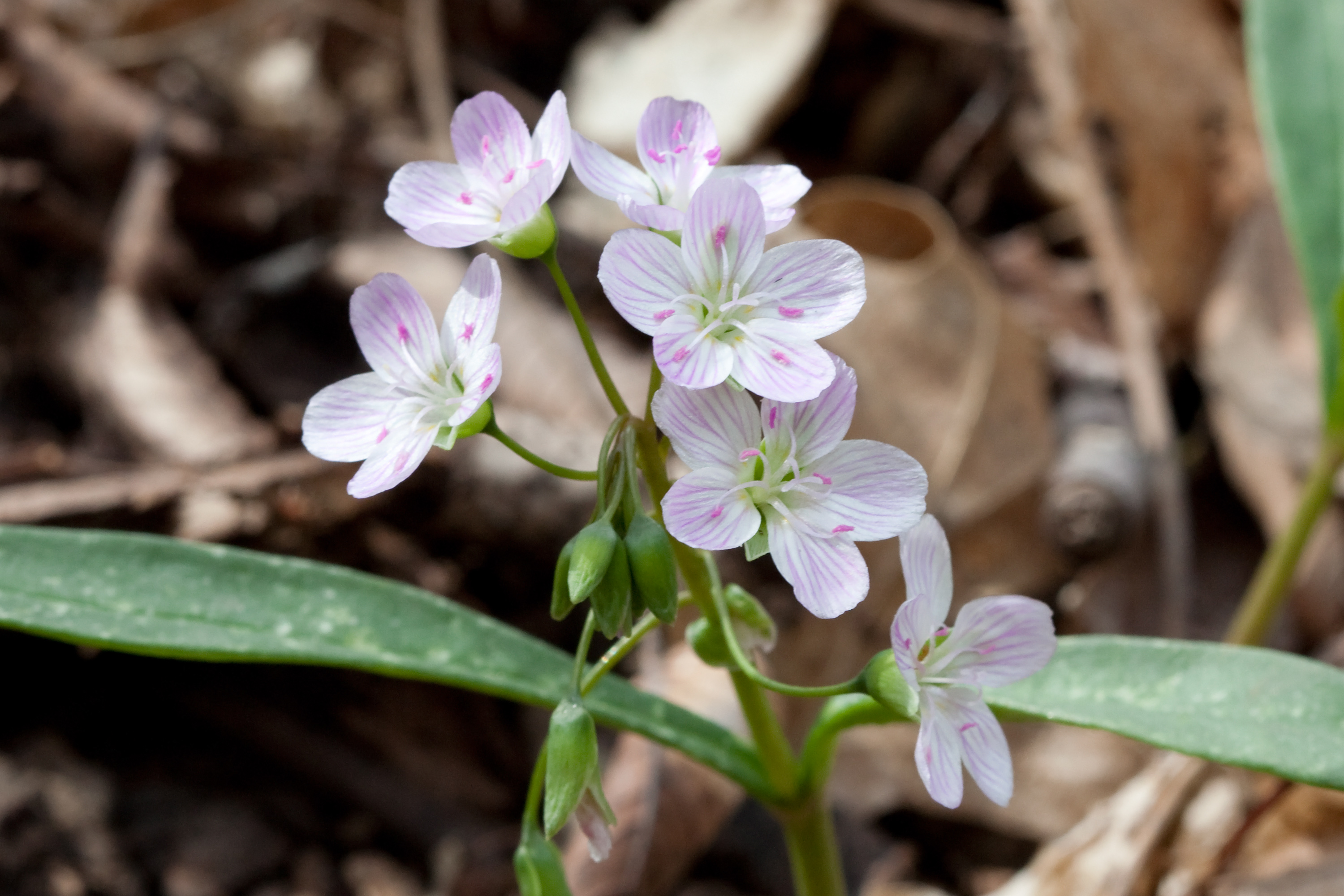 Eastern spring beauties (Claytonia virginica) at Radnor Lake in Nashville, Tennessee